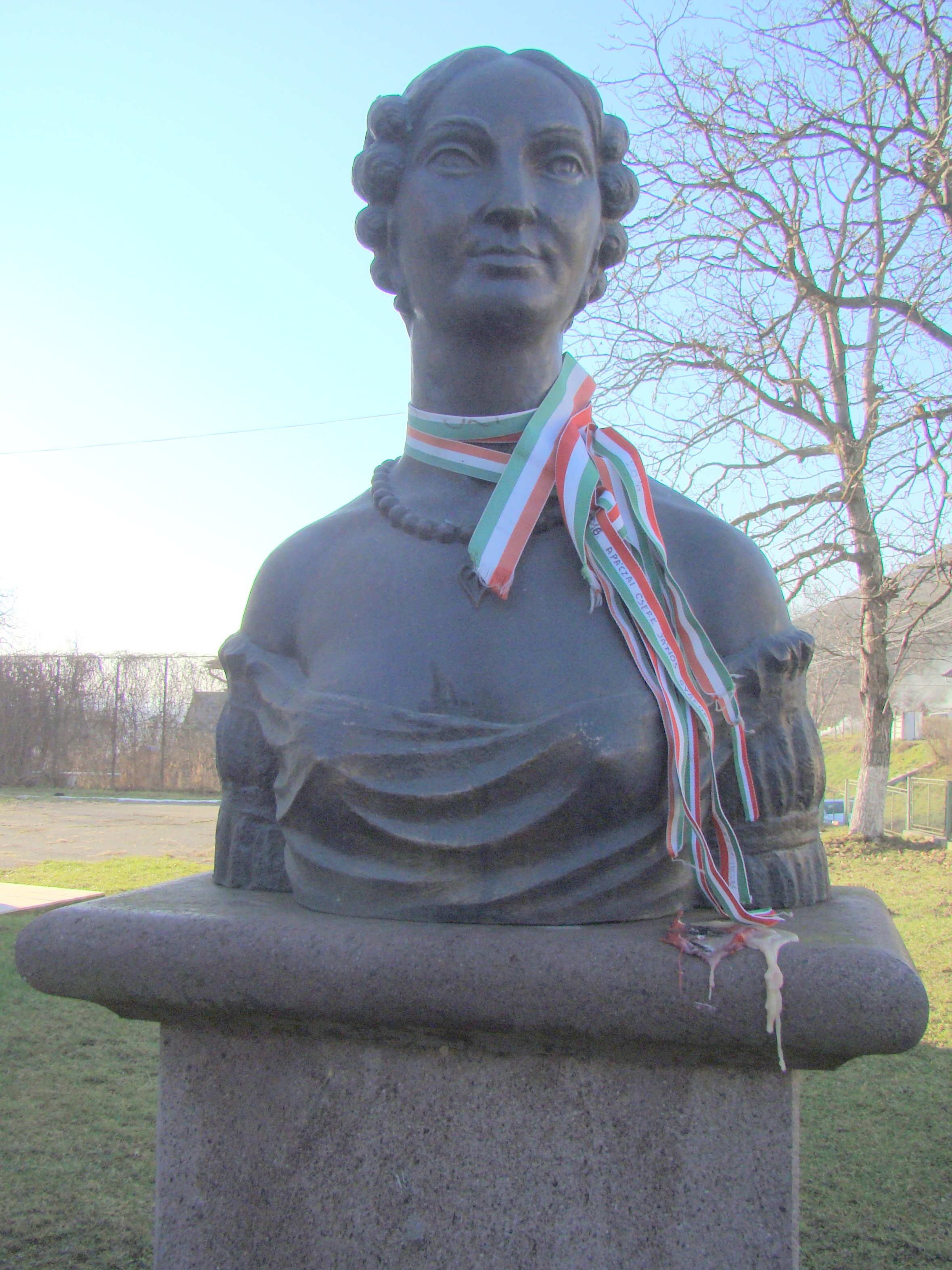 The Rhédey castle in Sângeorgiu de Pădure, Mureş county, Romania